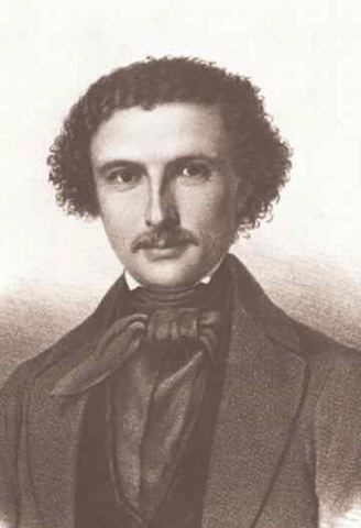 Marcus Thrane (October 14, 1817 – April 30, 1890) was the leader of the first Norwegian labour movement.